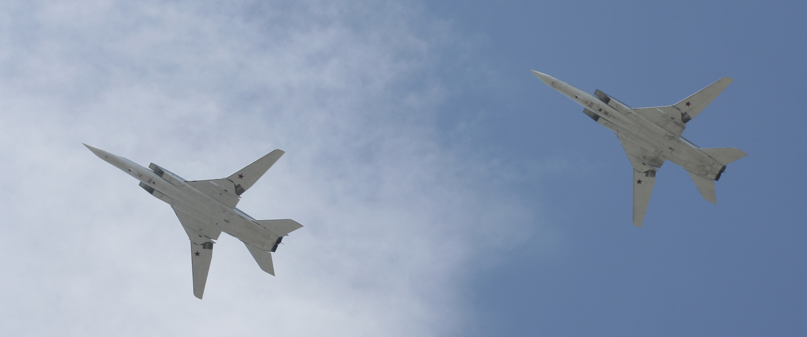 Planes in Russian Parad 2010